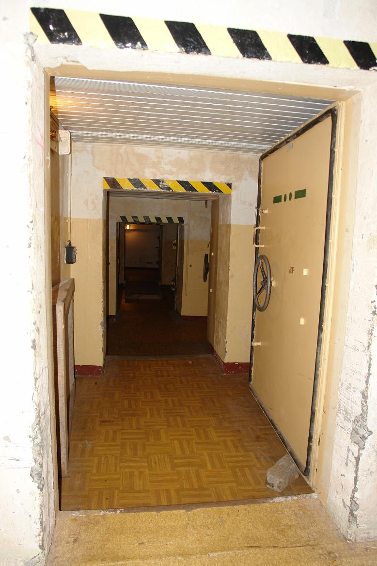 A gas sealing door inside the 17/5001 bunker in Prenden, eastern Germany